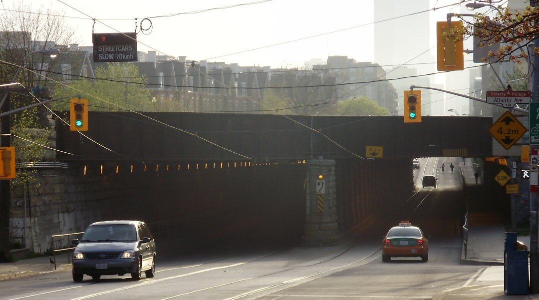 The King Street West Railway Subway underpass in Toronto, ON.